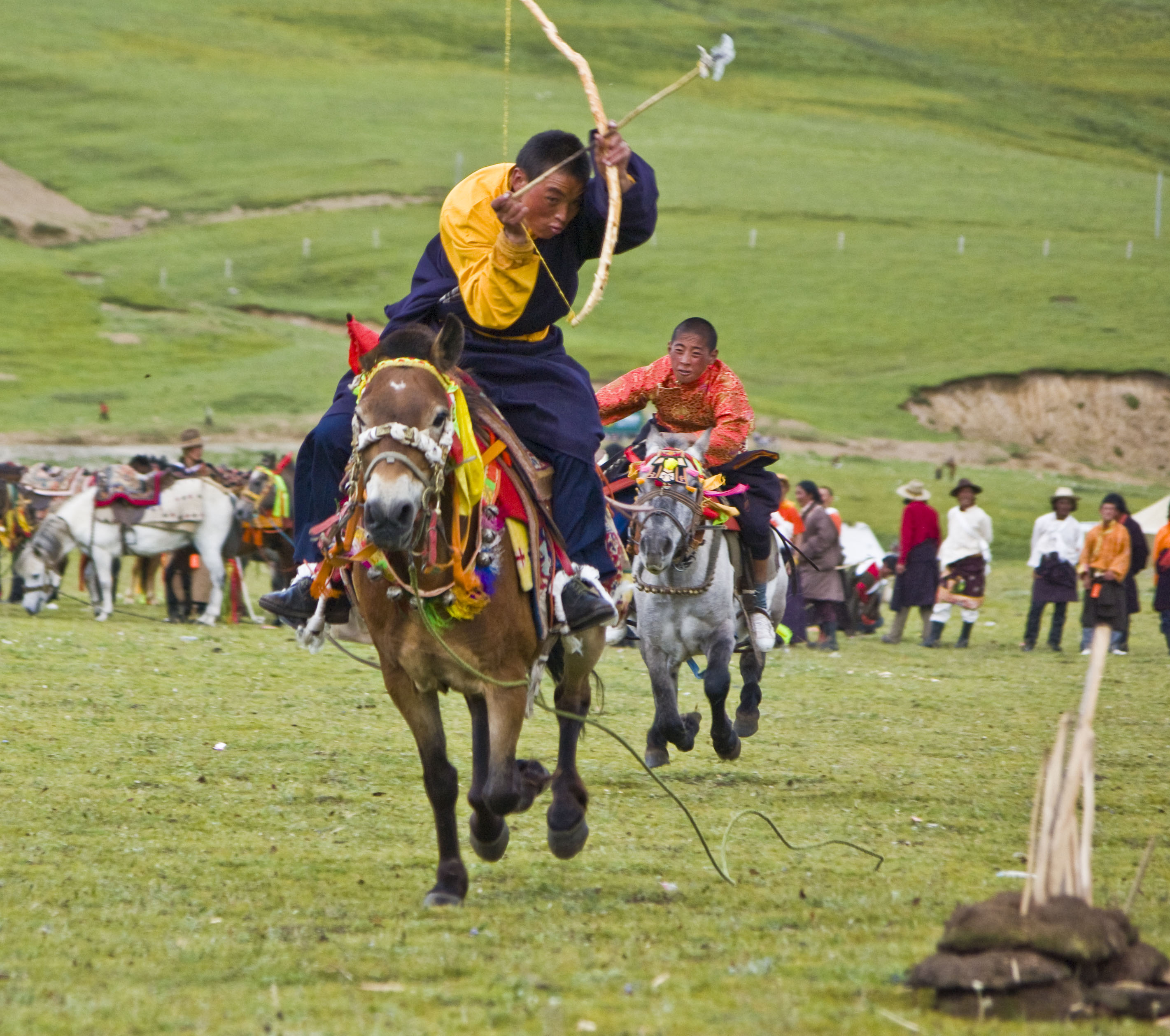 A horse riding in the Kham (in a horse festival)